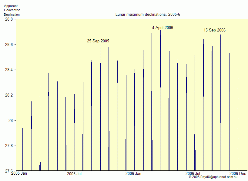 Conversion of :Image:LunarMaxima2006.png (c) Licensed under GFDL